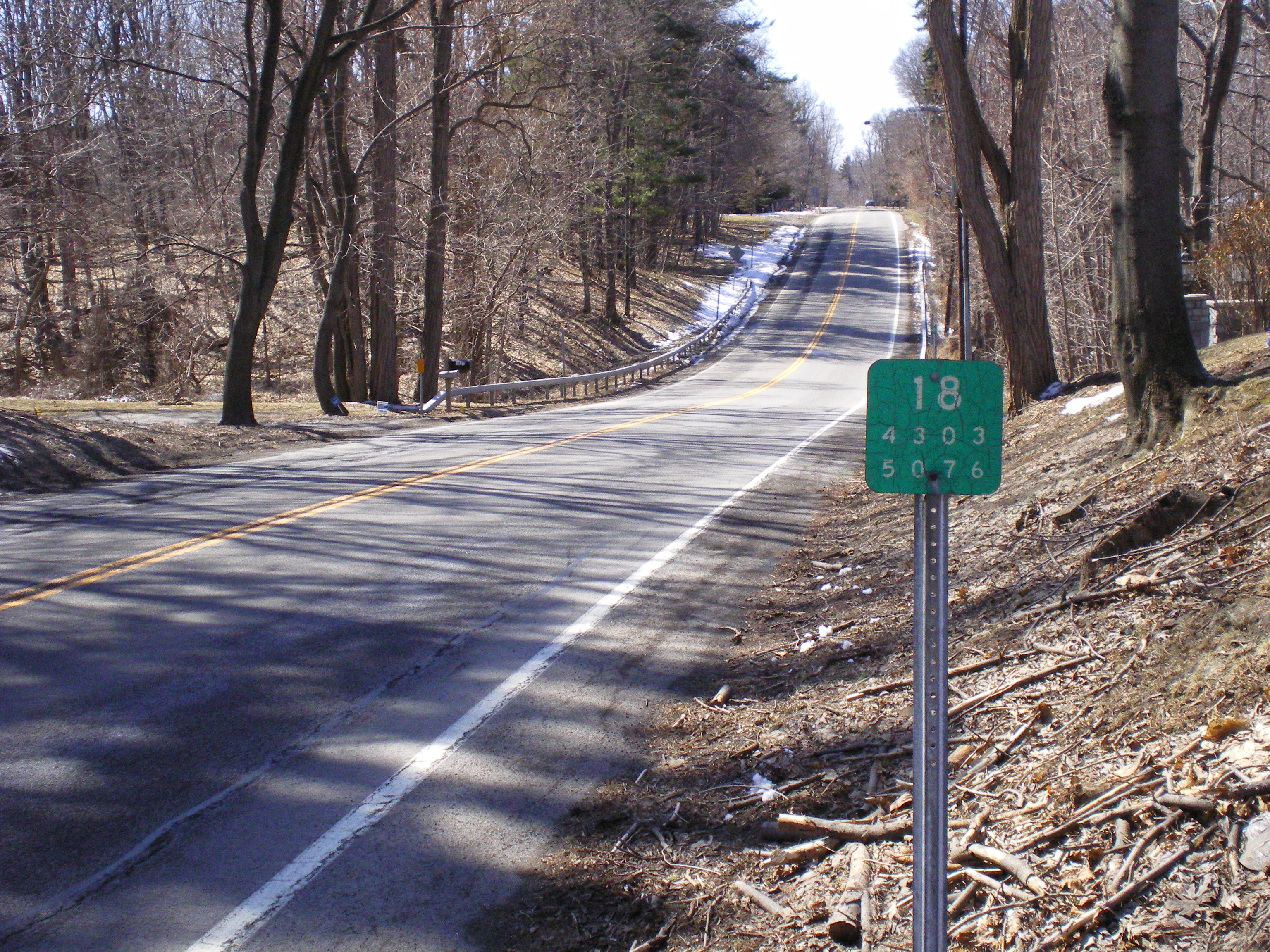 An old-style reference marker on Lake Road in Webster, New York, bearing markings for New York State Route 18. This part of Lake Road was part of NY 18 from the 1930s to the 1970s.